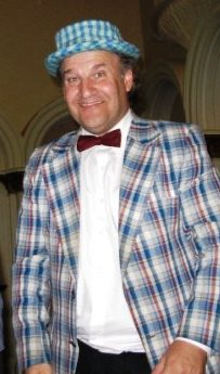 Uncle Floyd Vivino at Centenary College in Hacketstown, NJ. September 21, 2009